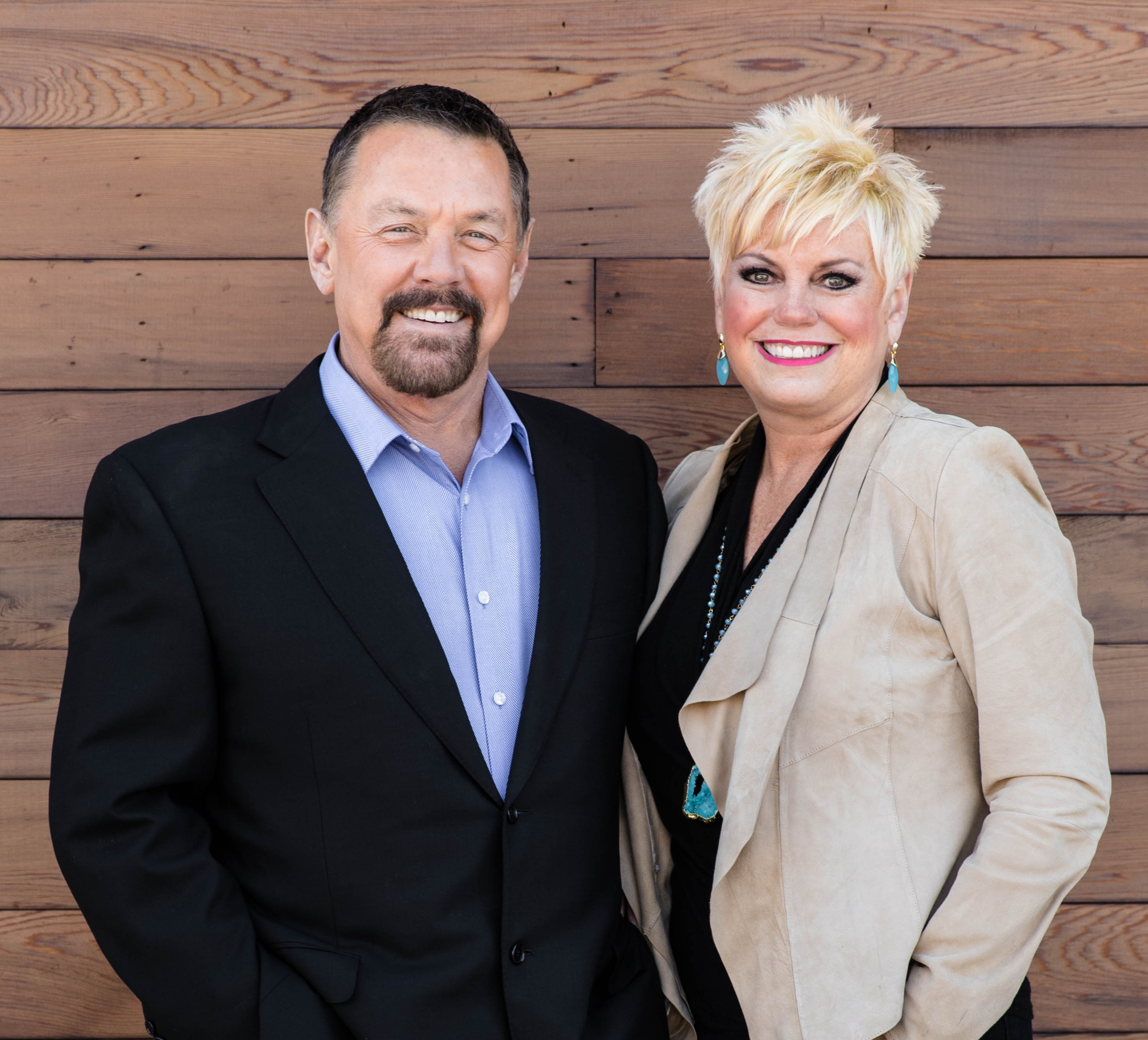 Pastors Larry and Tiz Huch.